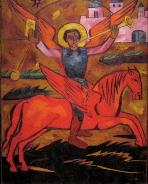 Natalia Goncharova (Russia, 1881 - 1962) Religious Composition; Archangel Michael, 1910 Painting, Oil on canvas, Unframed: 51 x 40 in. (129.5 x 101.6 cm) Purchased with funds provided by George Cukor (M.88.22) Wikipedia Loves Art at the Los Angeles County Museum of Art This photo of item # M.88.22 at the Los Angeles County Museum of Art was contributed under the team name "artifacts" as part of the Wikipedia Loves Art project in February 2009. Los Angeles County Museum of Art The original photograph on Flickr was taken by Beesnest McClain—please add a comment to the original Flickr page whenever a use has been made on Wikipedia or another project. Project galleries on Flickr: this institution, this team